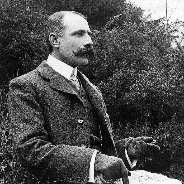 English composer Edward Elgar, likely in the early 1900s.